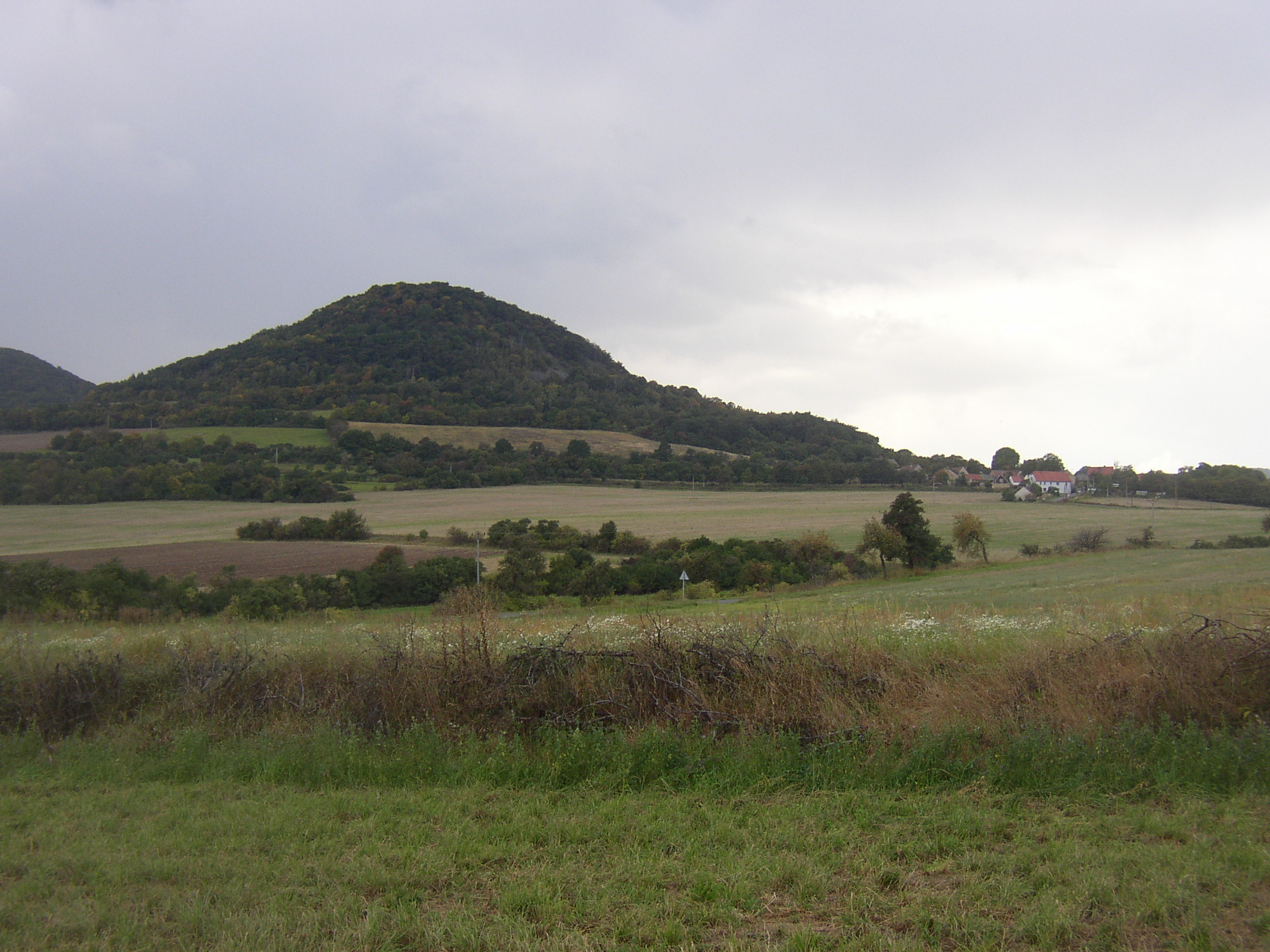 České středhoří, Czech Republic. Borečský vrch (446 m) as seen from east-northeast.